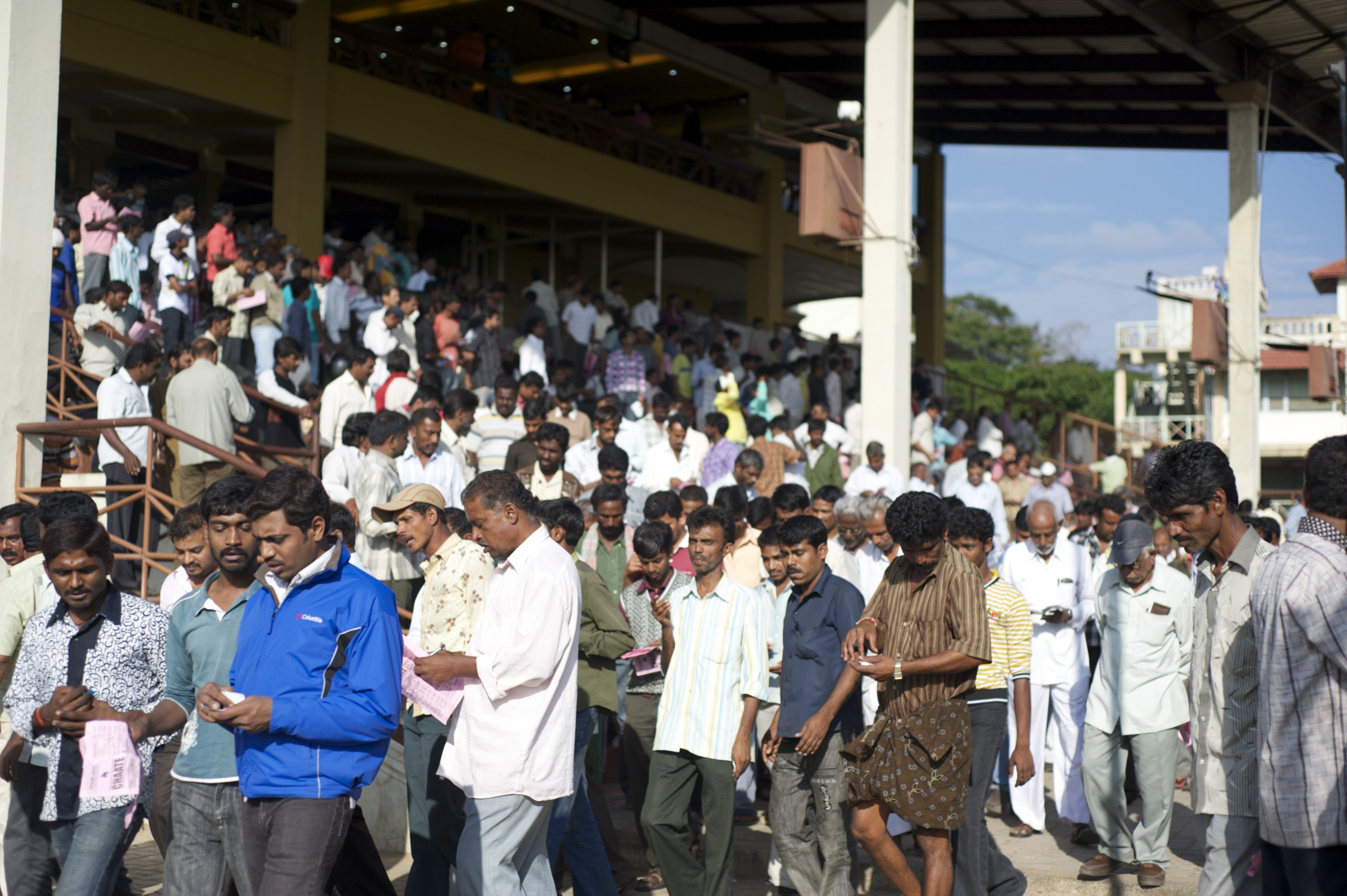 Patrons leave the stands of the Mysore Turf Club at the end of the day's races